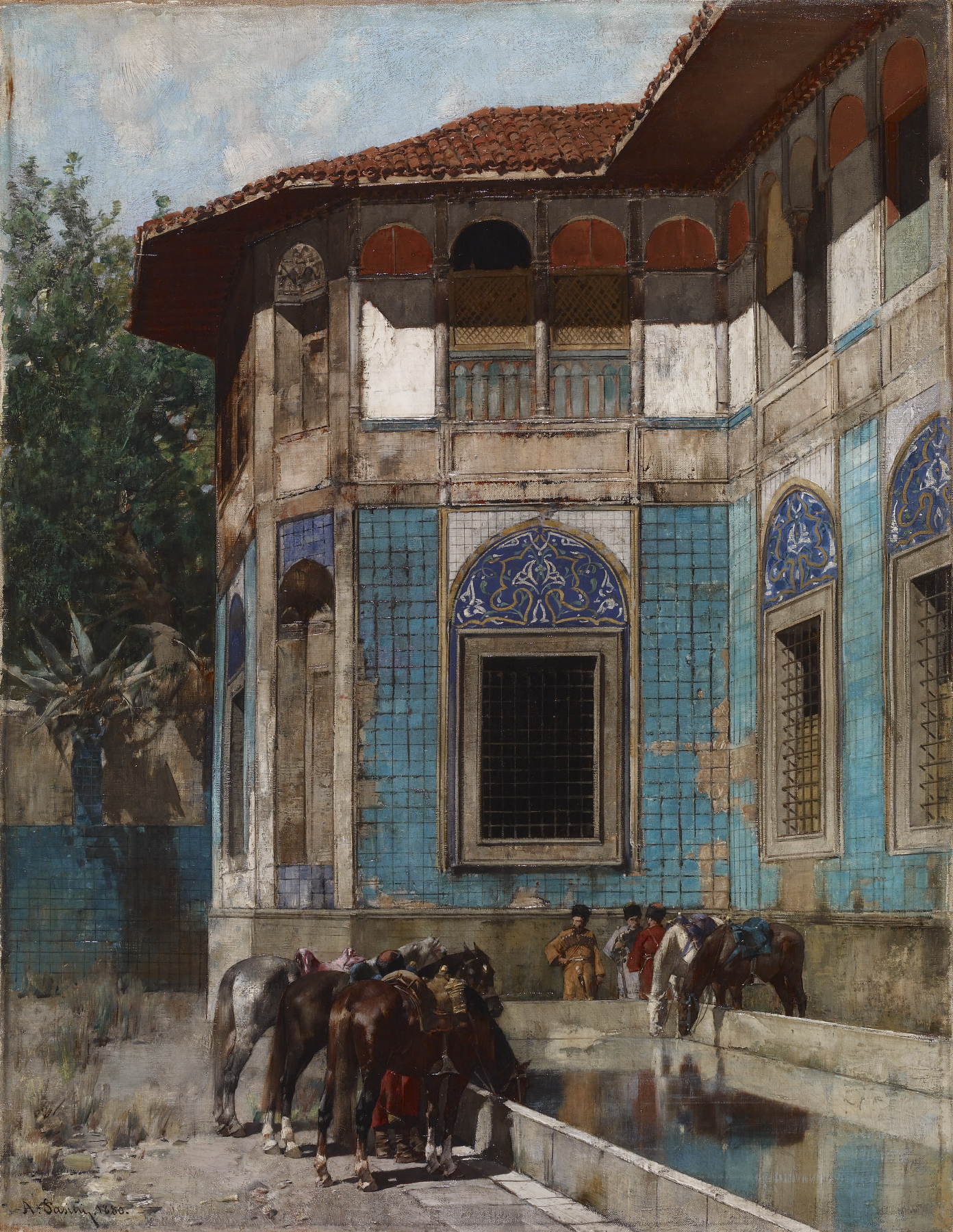 From 1848-71, Pasini resided in Paris and found inspiration in the atmospheric North African views of Eugène Fromentin. In 1855, he accompanied a French diplomatic expedition to Iran and also stopped in Turkey and Egypt. He returned to the Near East on a number of occasions, once traveling with fellow artist Jean-Léon Gérôme. In this courtyard scene, Pasini has captured the subtle effects of the subdued light on the stucco walls, the tiles, and the lattice window.